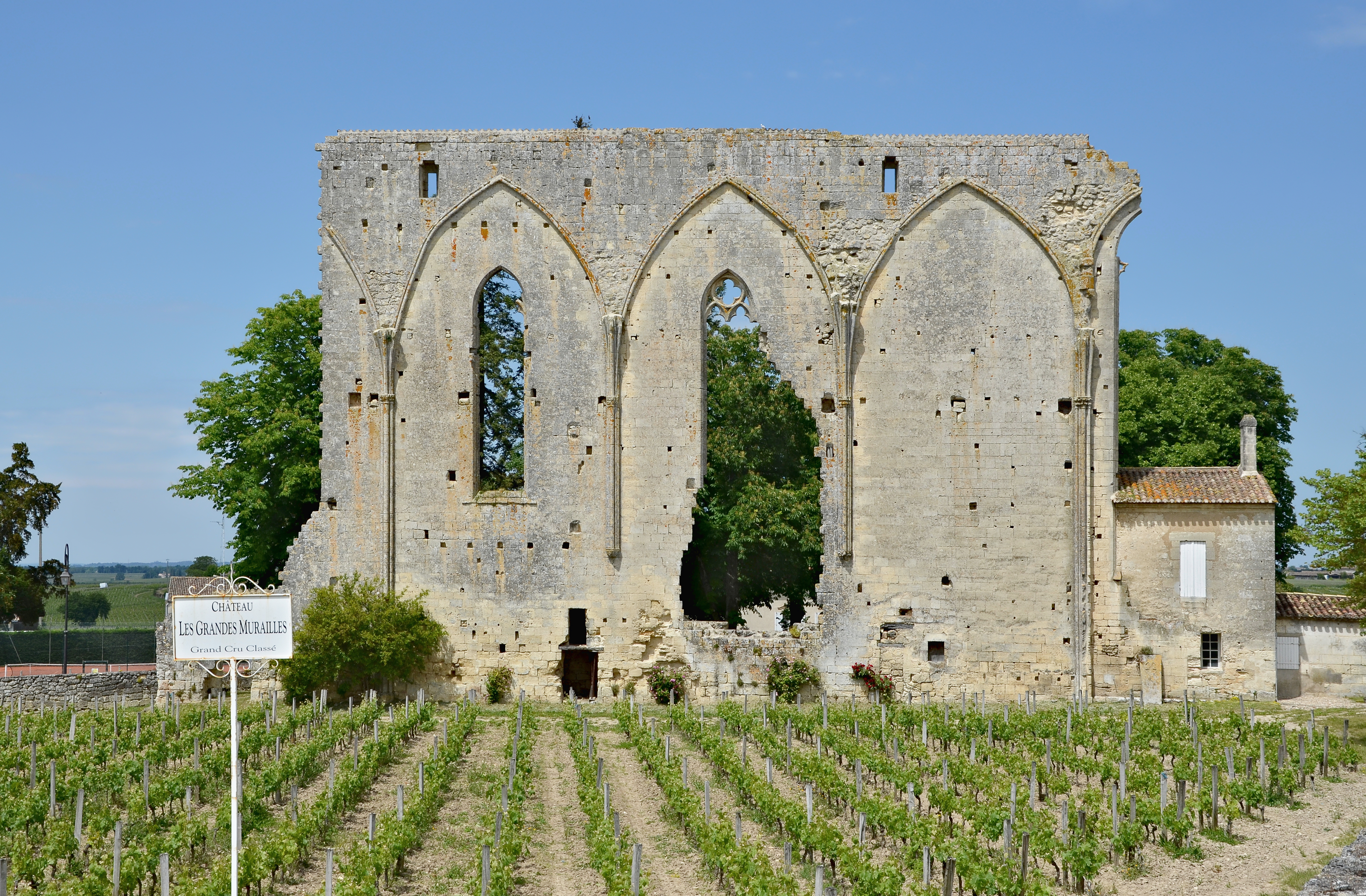 La Grande Muraille (The Great Wall), remains of a Dominican convent (13th century) and a part of the nearby vineyard. Saint-Émilion, Gironde, France. .